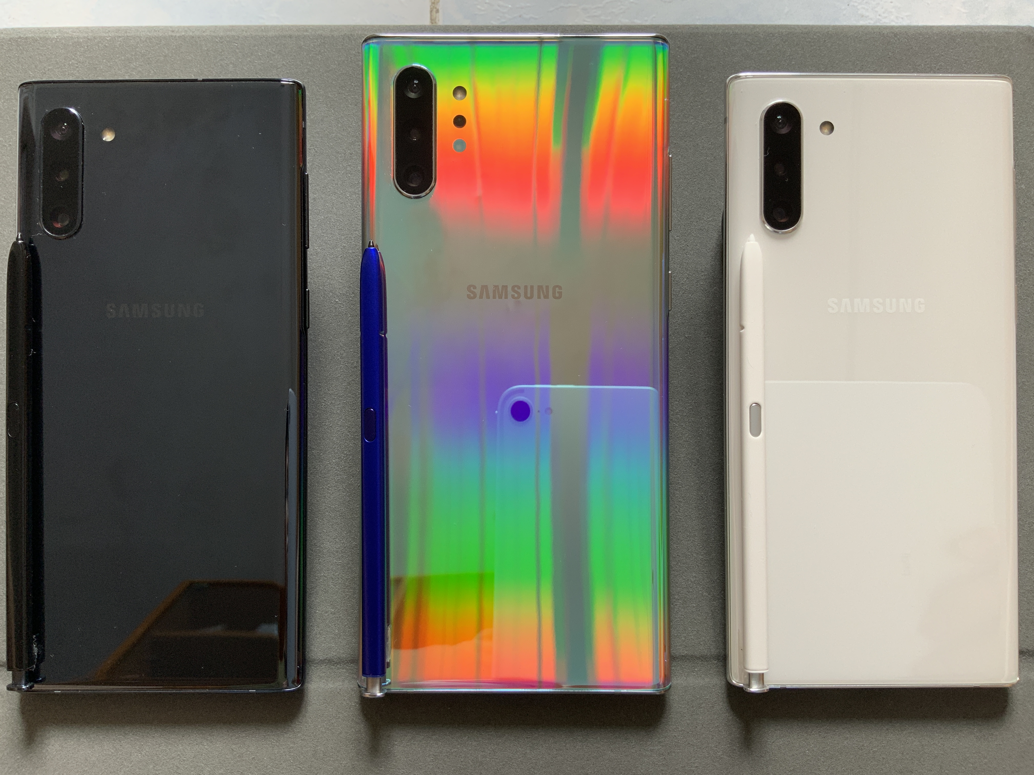 SAMSUNG Galaxy Note10 SAMSUNG Galaxy Note10 5G SAMSUNG Galaxy Note10+ SAMSUNG Galaxy Note10+ 5G